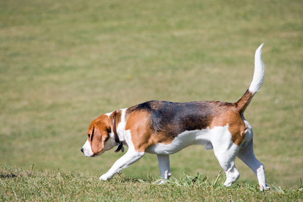 Profile image of a beagle dog walking on the green grass